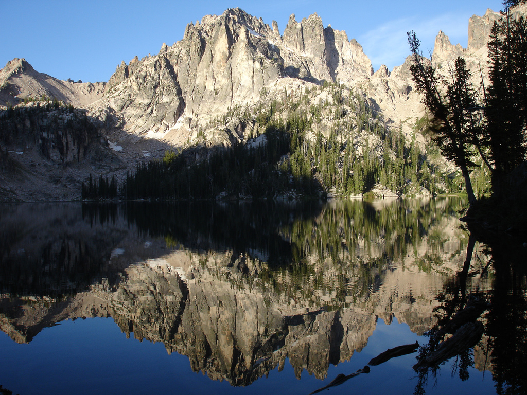 Baron Lake in the early morning in the Sawtooth Wilderness